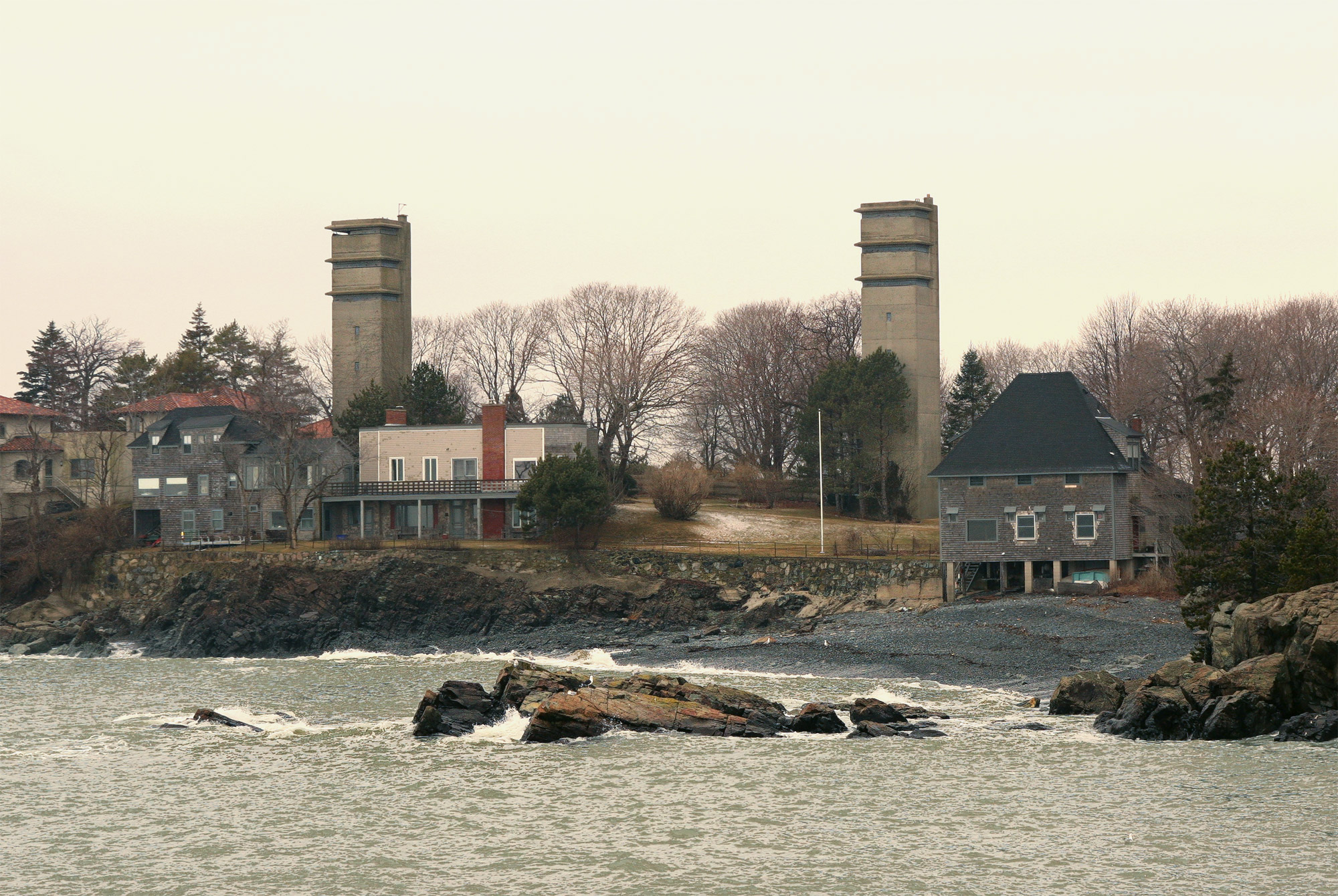 This photo, taken in February, 2010, looks west from the southwest tip of East Point, near the former platform of Battery 206 Gun 1. It shows the twin 8-story fire control towers along Swallow Cave Rd. in Nahant, MA. When they were built in 1943 the towers were each about 70 ft. tall, putting the observing instruments in their top levels almost 109 ft. above sea level. The tower on the right was designated Site 1A and that on the left Site 2A. Today the towers are privately owned. They are perhaps the best-preserved pair of Coast Artillery towers in the United States.